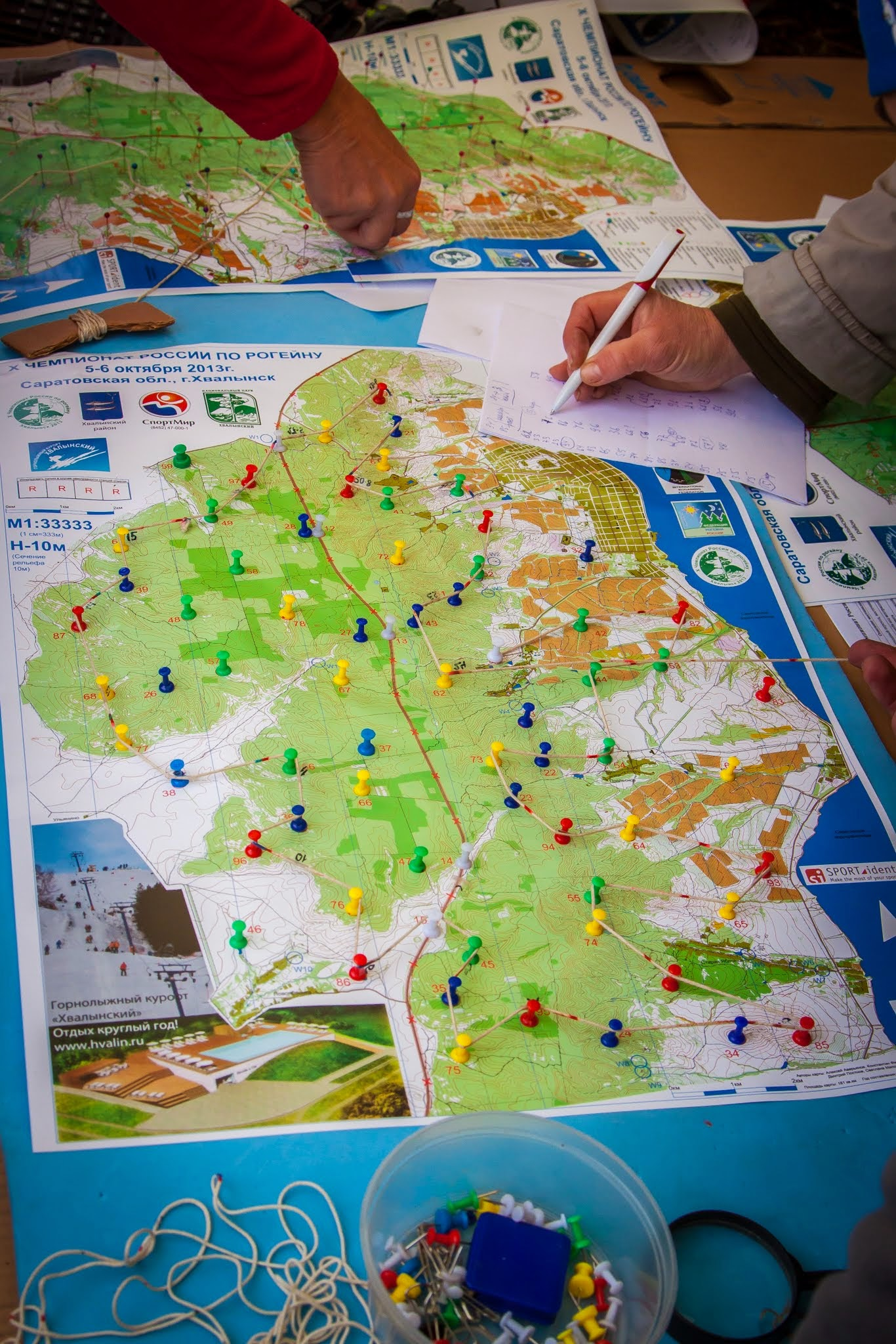 Planning of teams routes on 10th Russian Rogaining Championships 2013, Khvalynsky District, Saratov Oblast, Russia, 5 October 2013.